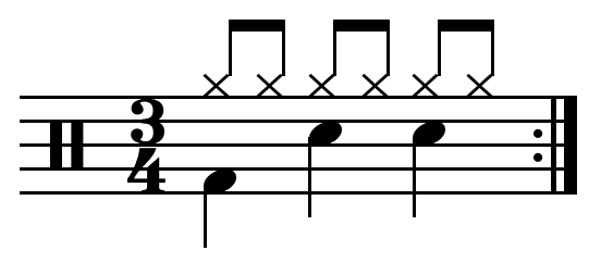 Simple triple drum pattern: divides three beats into two. Created by Hyacinth (talk) 10:20, 25 November 2010 using Sibelius 5.